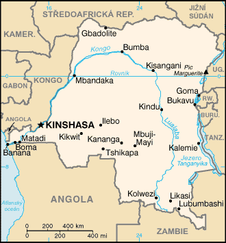 Map of Democratic Republic of the Congo with Czech description.